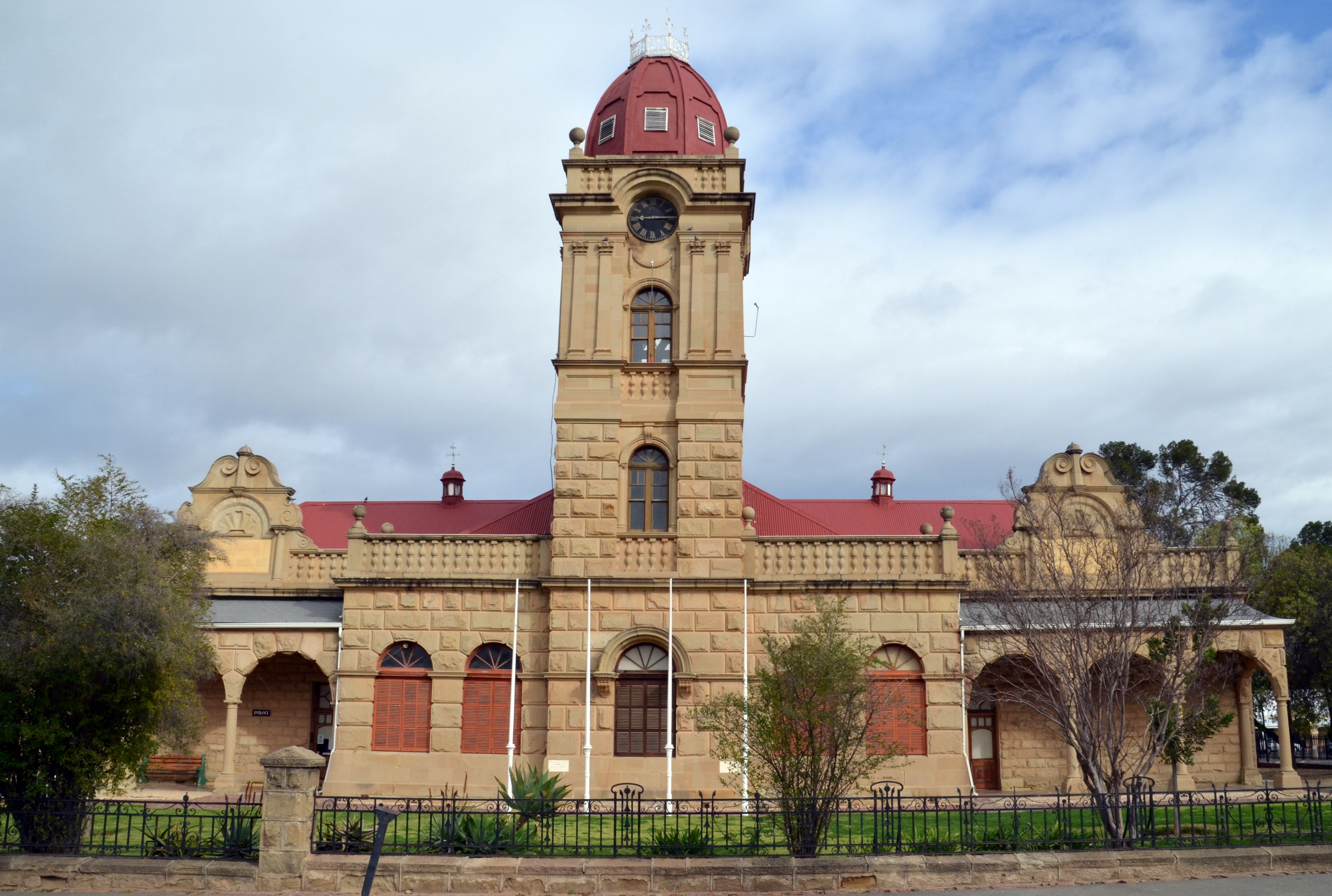 C P Nel Museum, Baron van Rheede Street, Oudtshoorn. Designed in part by Bullock and Vixseboxe, the well known architects, it reflects the former's copiousness and the latter's Transvaal Republic influence. Especially worthy of note is the facade, with its harmonious blending of styles. This media shows a South African Protected Site with SAHRA file reference 9/2/068/0007.